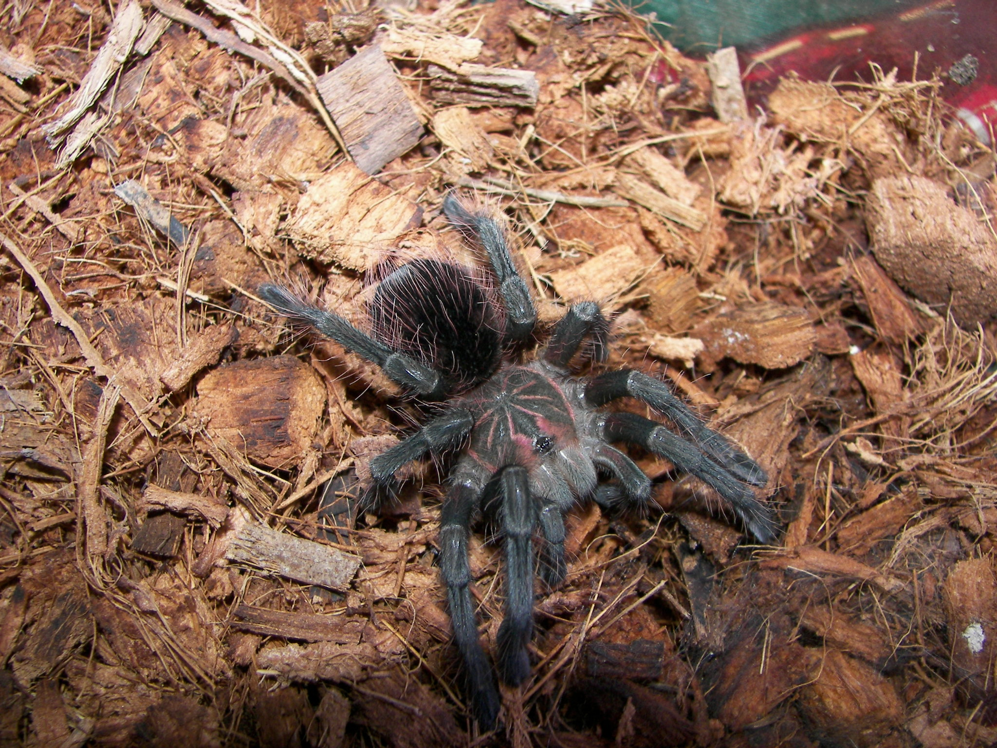 Juvenile Pamphobeteus sp. "Peru".